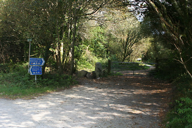 On The Clay Trails Cycle paths have been built through the St Austell china clay mining district. Here you can go onward through the gate to take a path eventually leading to The Eden Project or in the other direction towards Wheal Martyn museum.